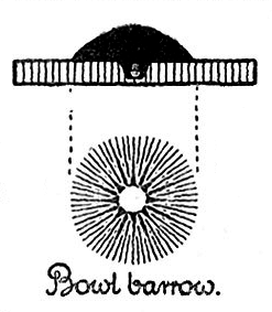 Bowl barrow plan and section, cropped from a Heywood Sumner illustration in Frank Stevens' "Stonehenge Today and Yesterday"